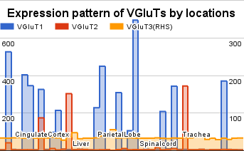 Las ubicaciones de expresión de VGluTs son complementarias.